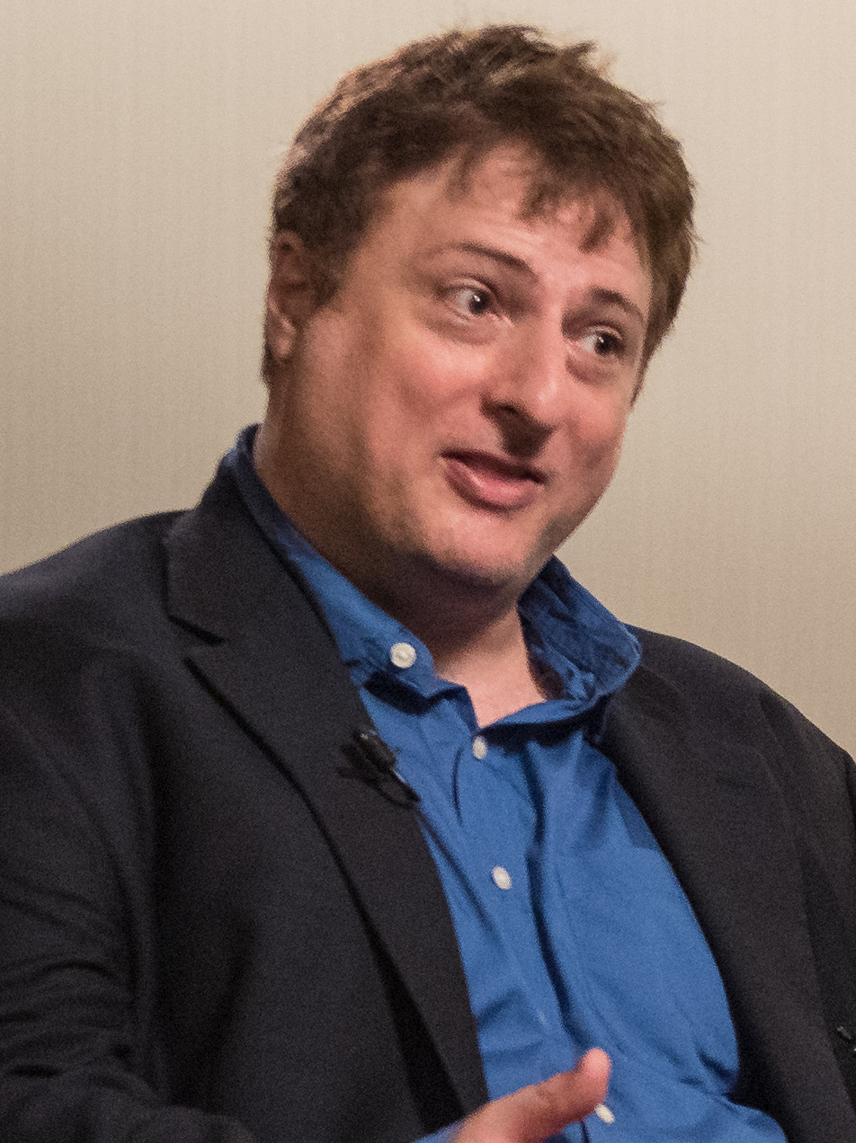 NASA's Social Video Producer, Brittany Brown interviews Nick Sagan Friday, June 1, 2018 at the John F. Kennedy Center for the Performing Arts ahead of the "National Symphony Orchestra Pops: Space, the Next Frontier," celebrating NASA's 60th Anniversary in Washington DC. The event featured music inspired by space including artists Will.i.am, Grace Potter, Coheed & Cambria, John Cho, and guest Nick Sagan, son of Carl Sagan.